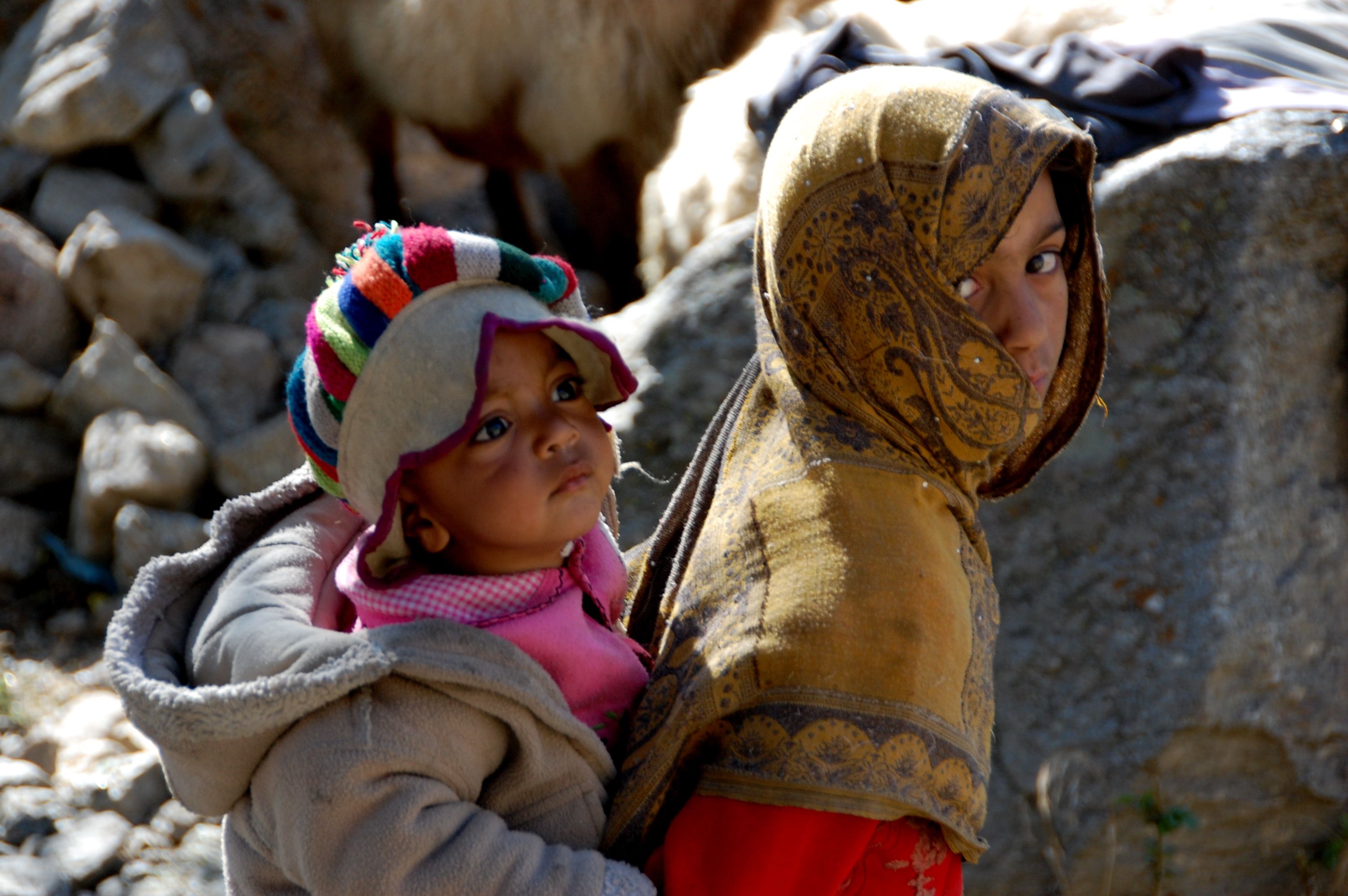 Local Girls, Hunza Valley, Gilgit-Baltistan, Pakistan